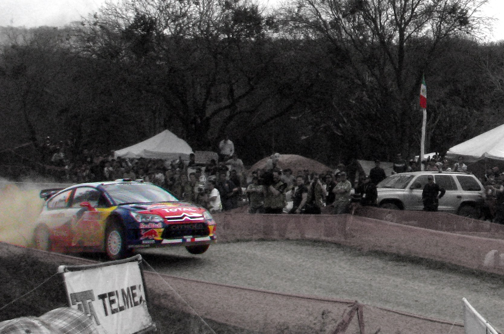 Sébastien Loeb at 2010 Rally Mexico